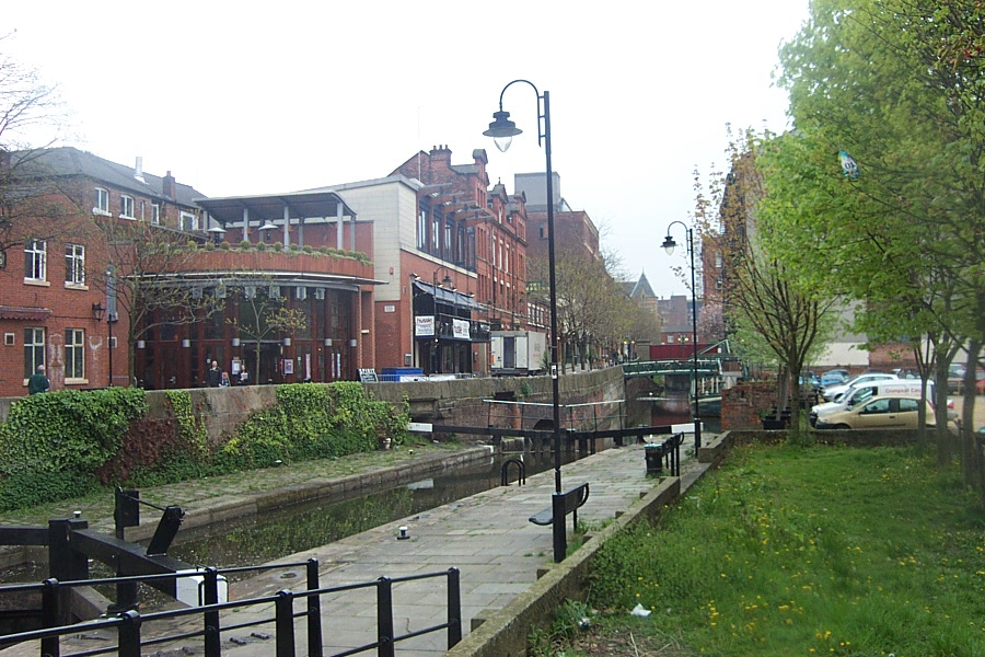 Canal Street, Manchester Category:Images of Manchester